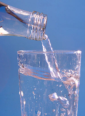 Mineral water being poured from a bottle into a glass. Original description “still” in German indicates this particular water is without gas/carbonation or has less than 1 gramm CO2 per Liter.